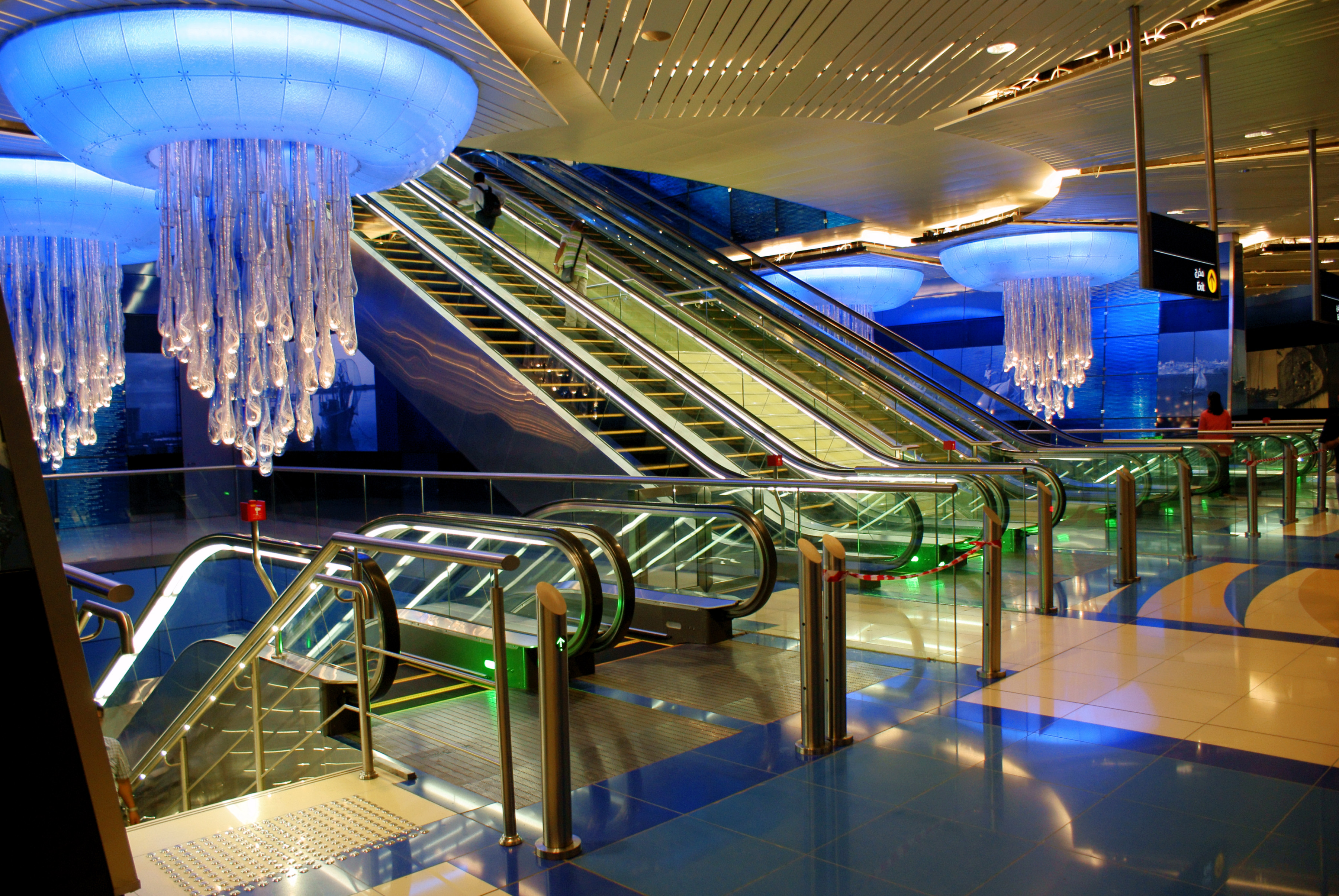 Metro Dubai on its opening day September 10th, 2009. Station Khaleed bin Waleed (Bur Juman).